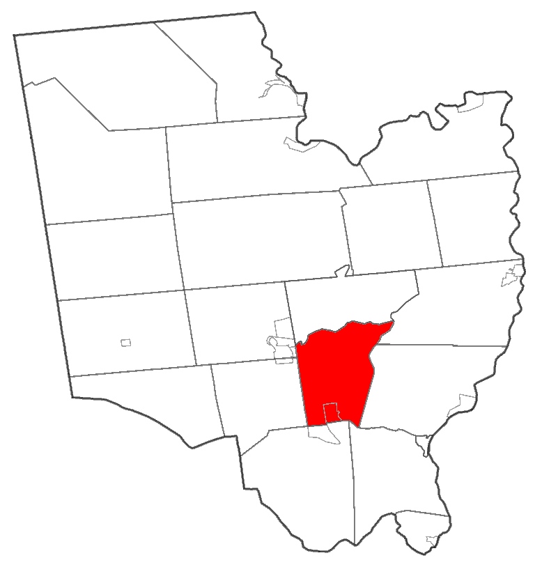 Map of Saratoga County highlighting Malta